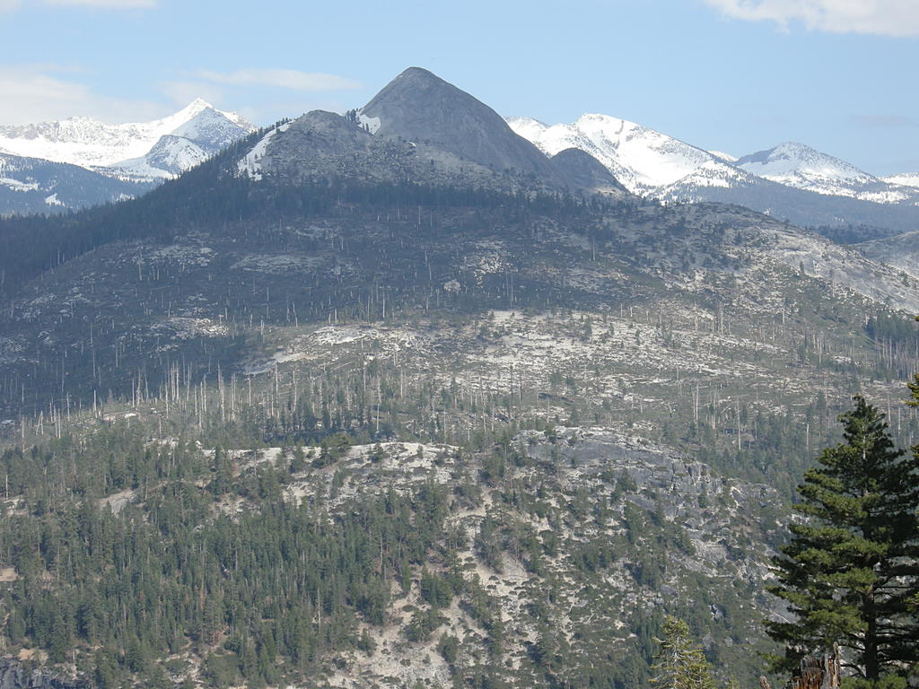 Mount Starr King from Glacier Point area.